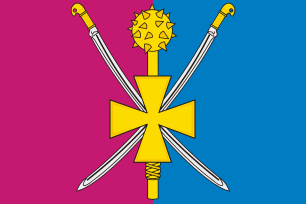 Flag of Atamanskoe rural settlement, Krasnodar Krai, Russia